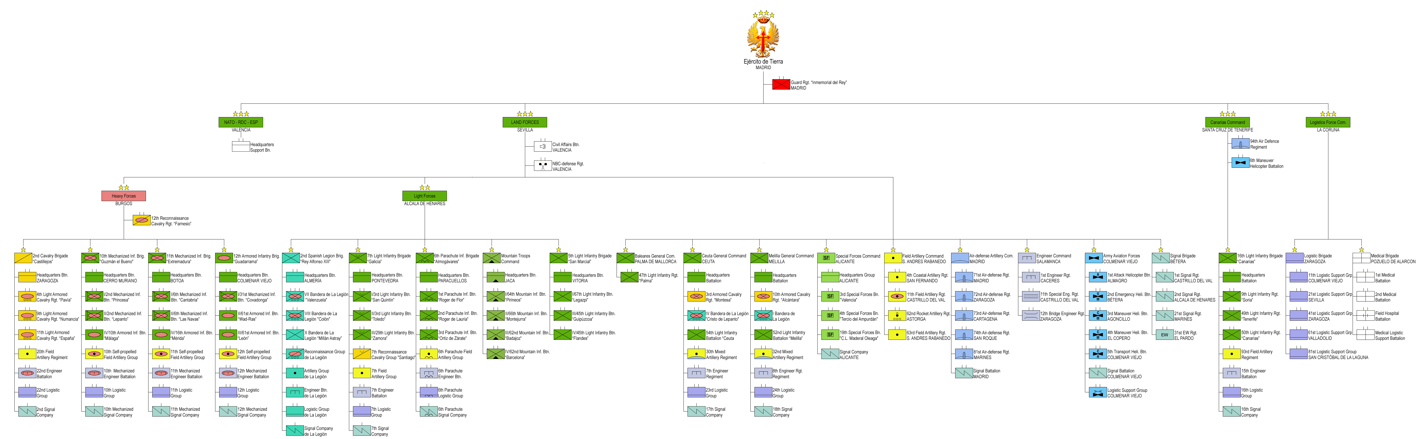 The future Structure of the Land Forces of the Spanish Armed Forces; done by myself: noclador